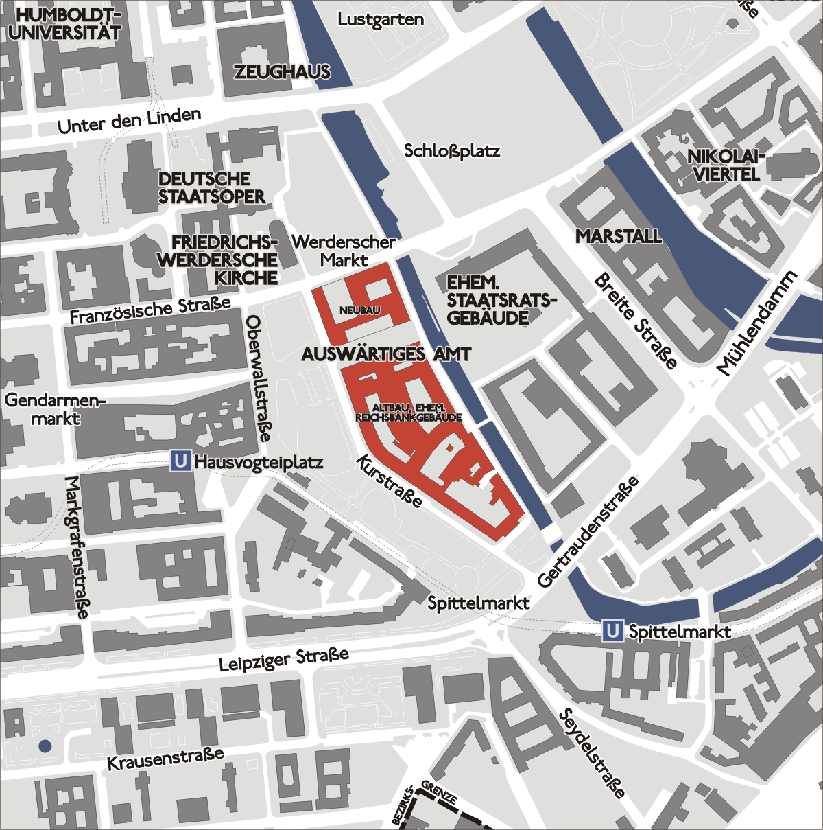 This city map image could be recreated using vector graphics as an SVG file. This has several advantages; see Commons:Media for cleanup for more information. If an SVG form of this image is available, please upload it and replace afterwards this template with vector version available|new image name.svg or just NowSVG .